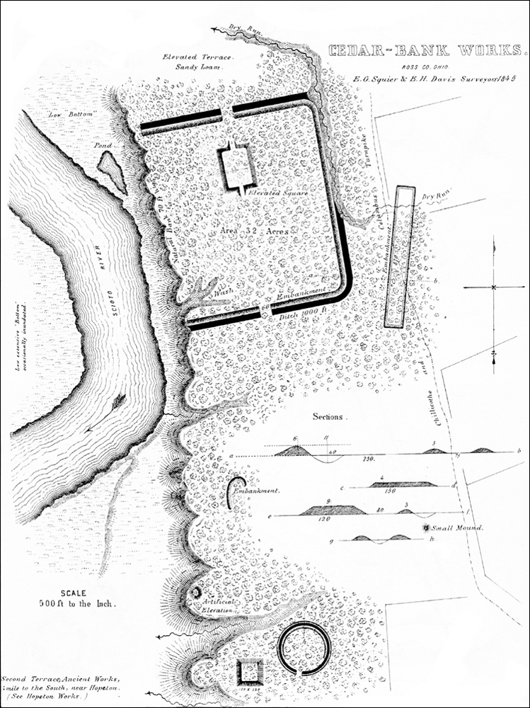 Squier and Davis engraving, plate number XVIII, of the Cedar-Bank Works in Ross County, Ohio.